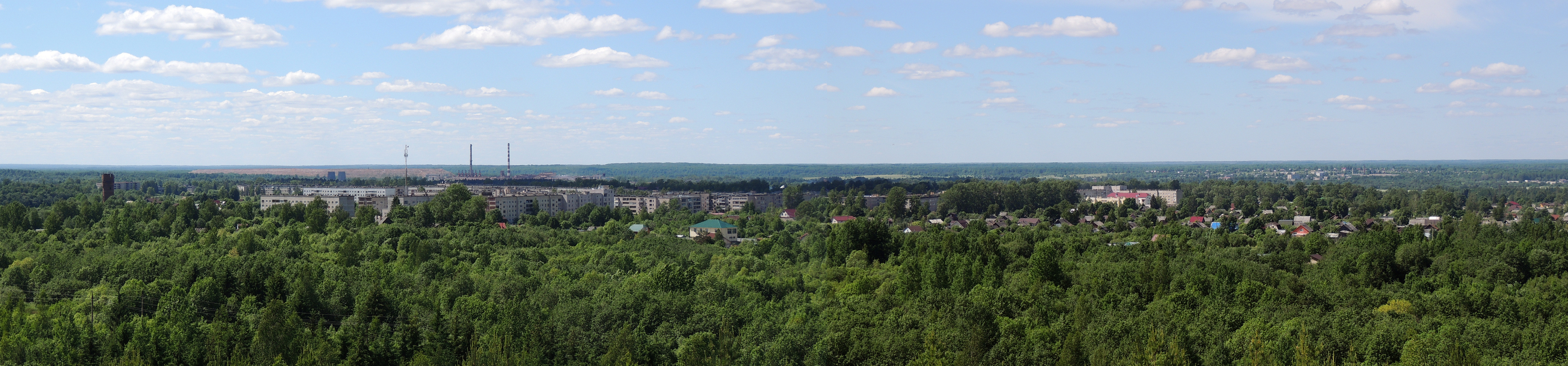 Panorama of the city of Boksitogorsk. June 2020 View from the northeast.